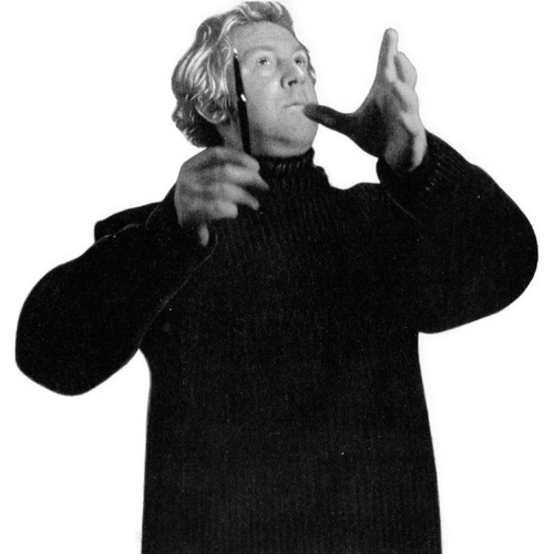 Norman Kay - Composer, conducts excerpts from his film and incidental music.